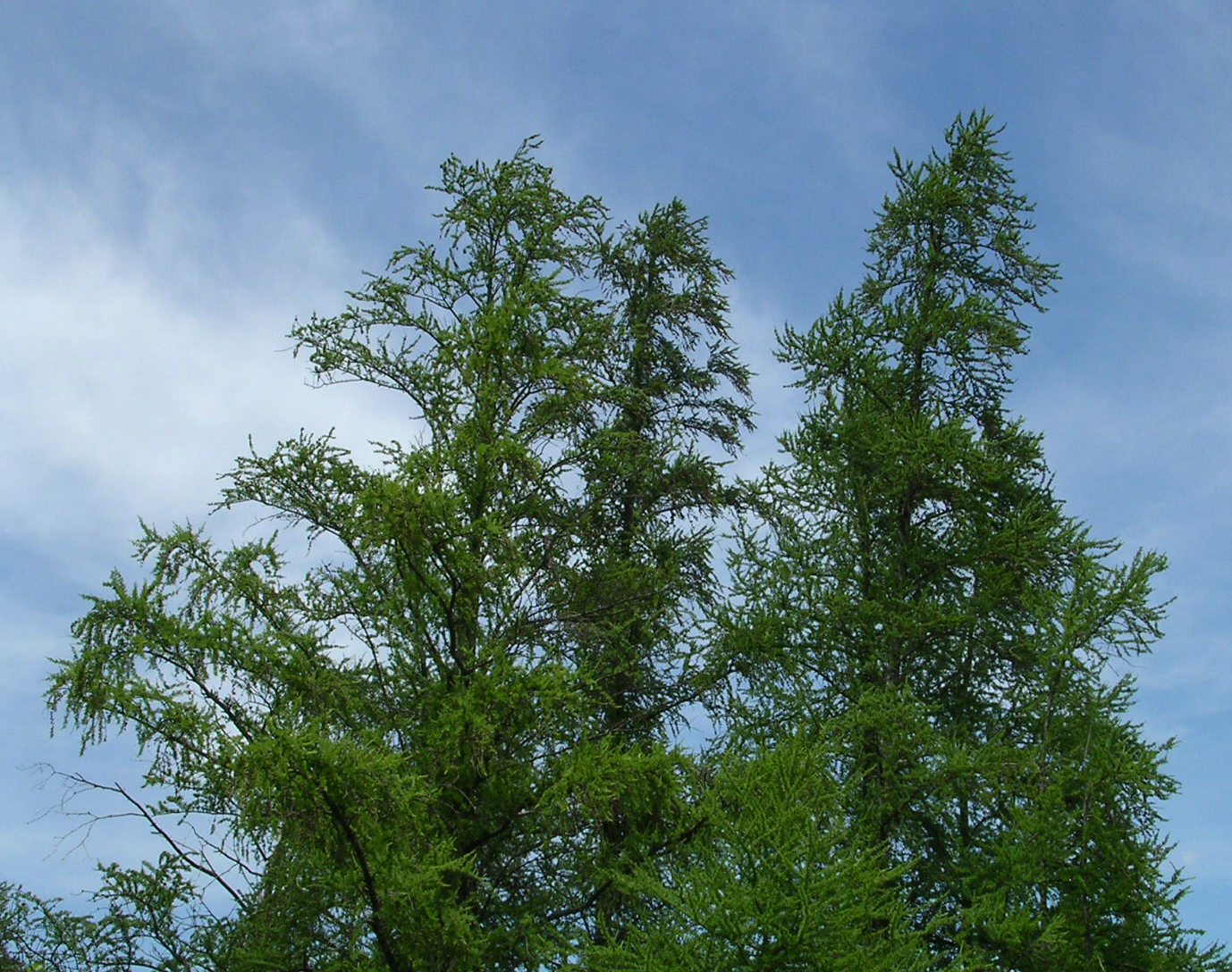 Tamarack Larch Larix laricina, Volo Bog State Natural Area, Lake County, Illinois, USA.